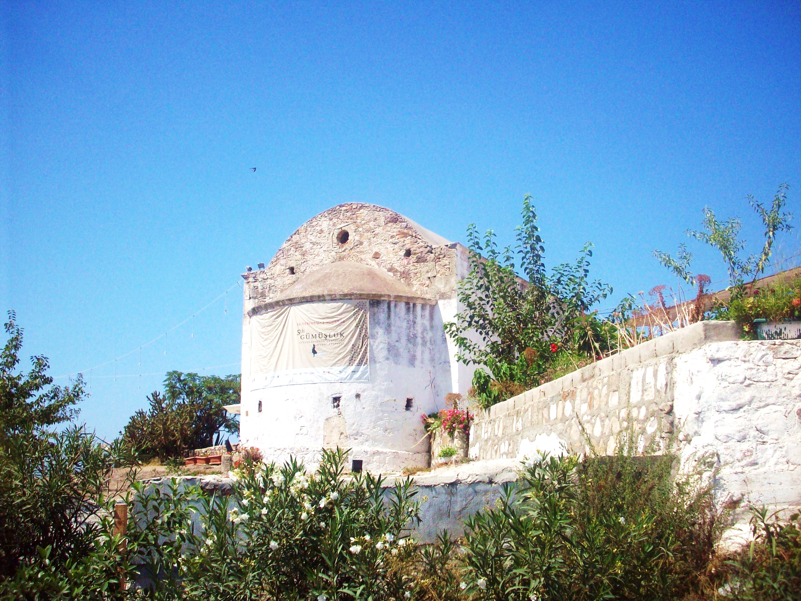 Old Greek church in Gümüslük (near Bodrum); Turkey